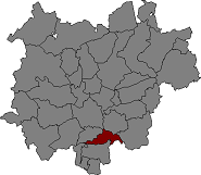 Location of Sant Vicenç de Castellet in Bages